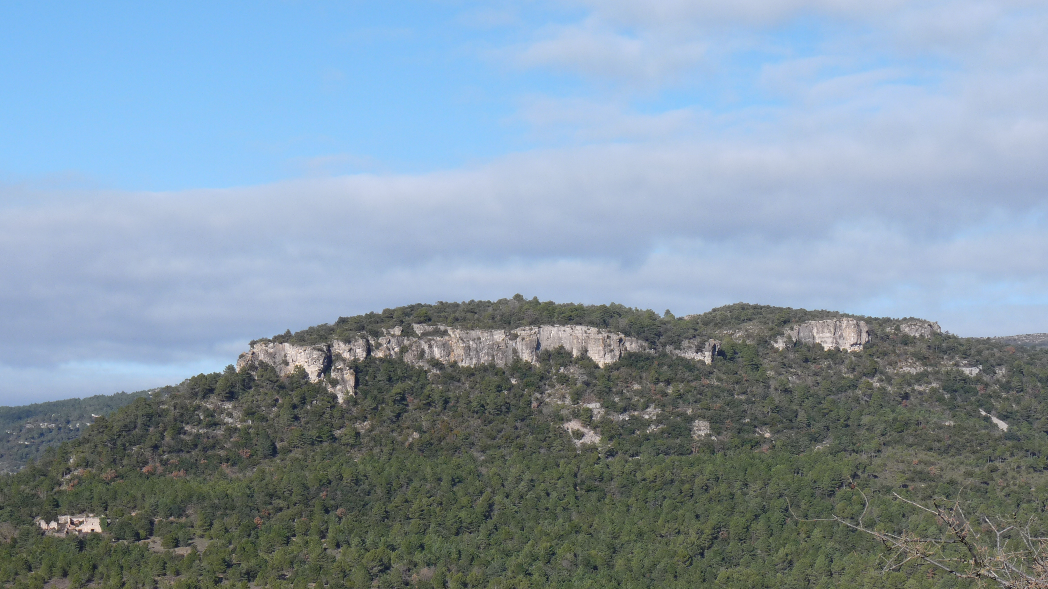 Mola of la Febró. Down on the left the ruins of farms of Galzeran.